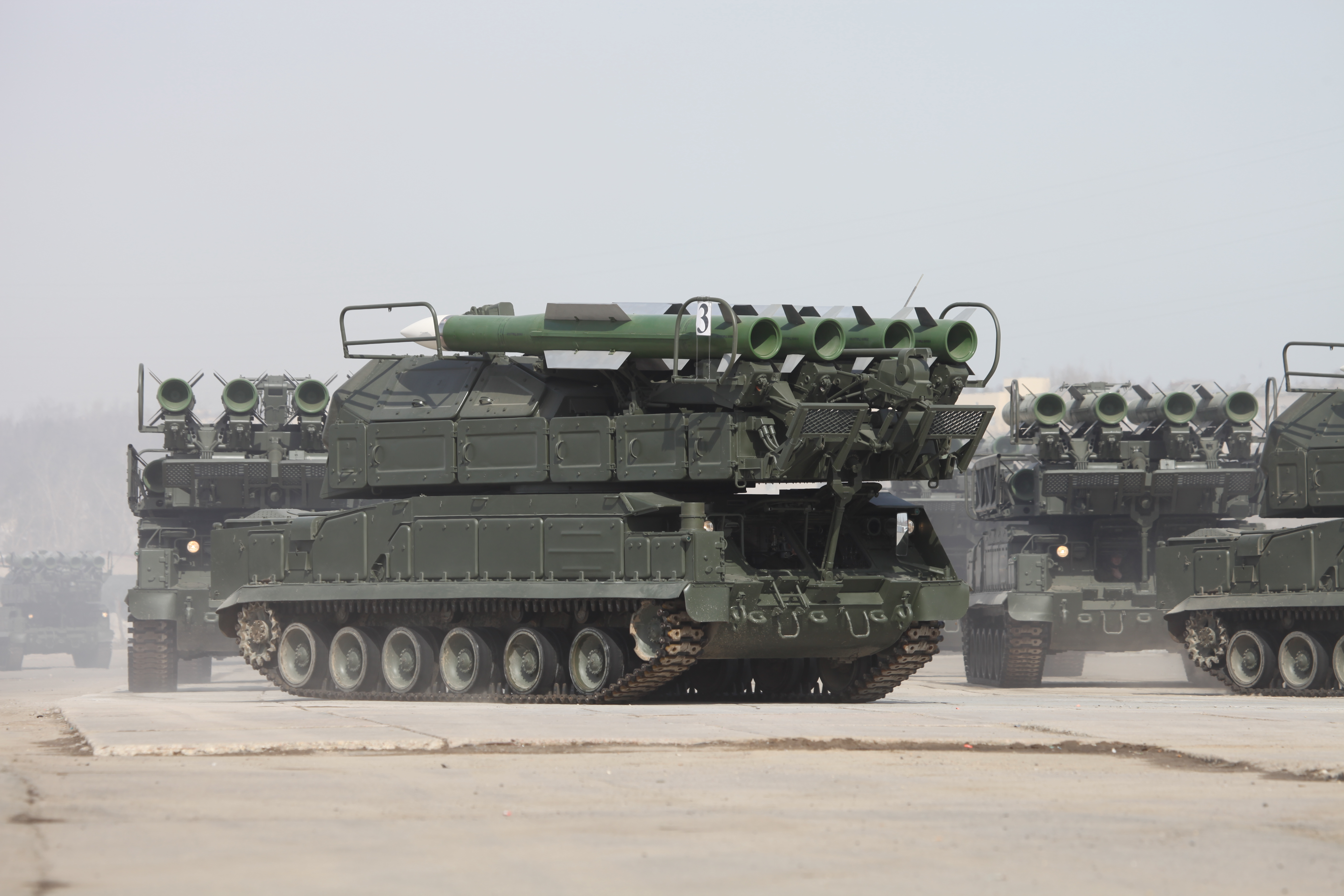 9A317 Buk-M2 at the Victory Parade rehearsal in Alabino.